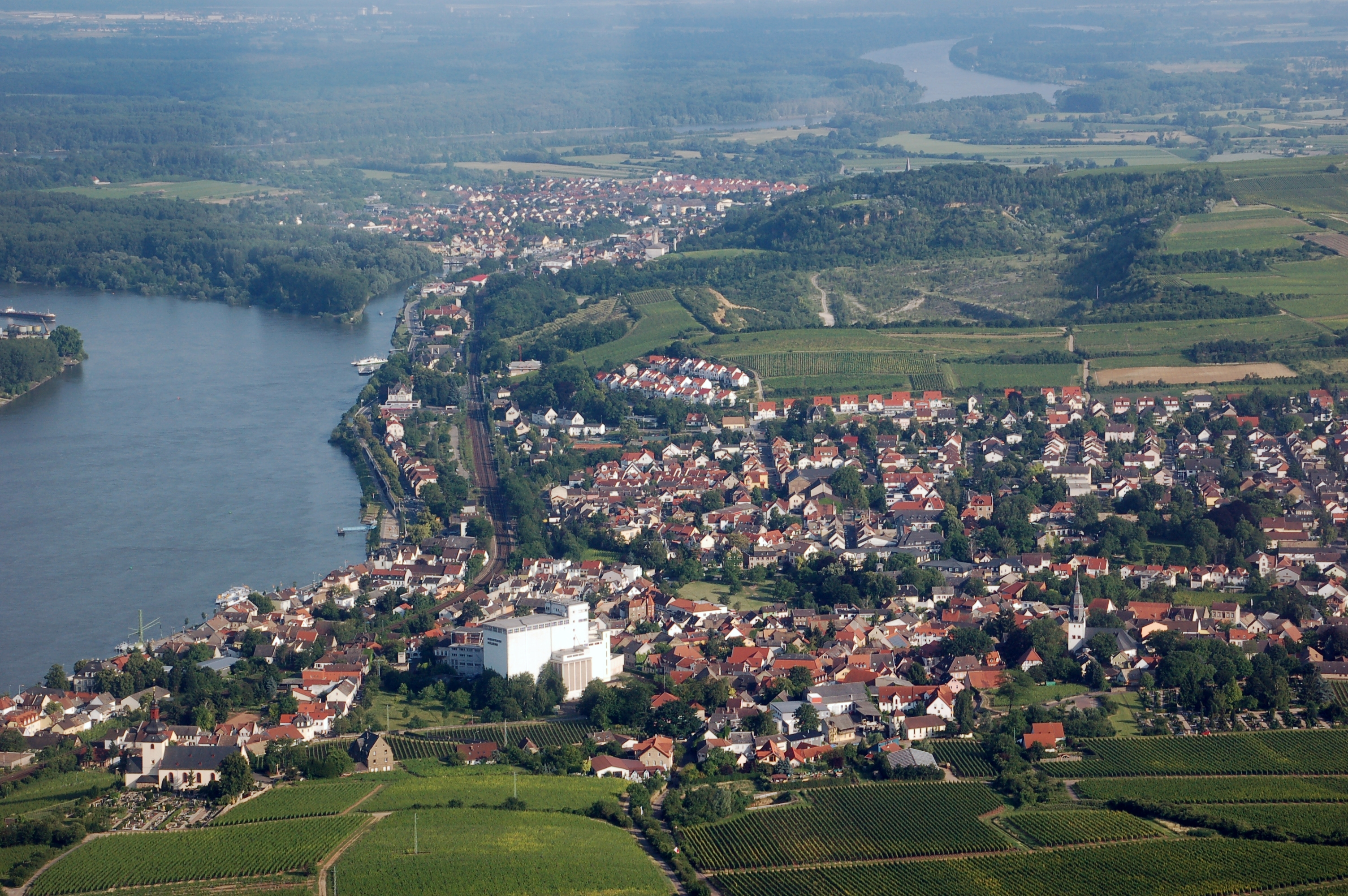 Aerial photograph of Nierstein, Rhineland-Palatinate, Germany